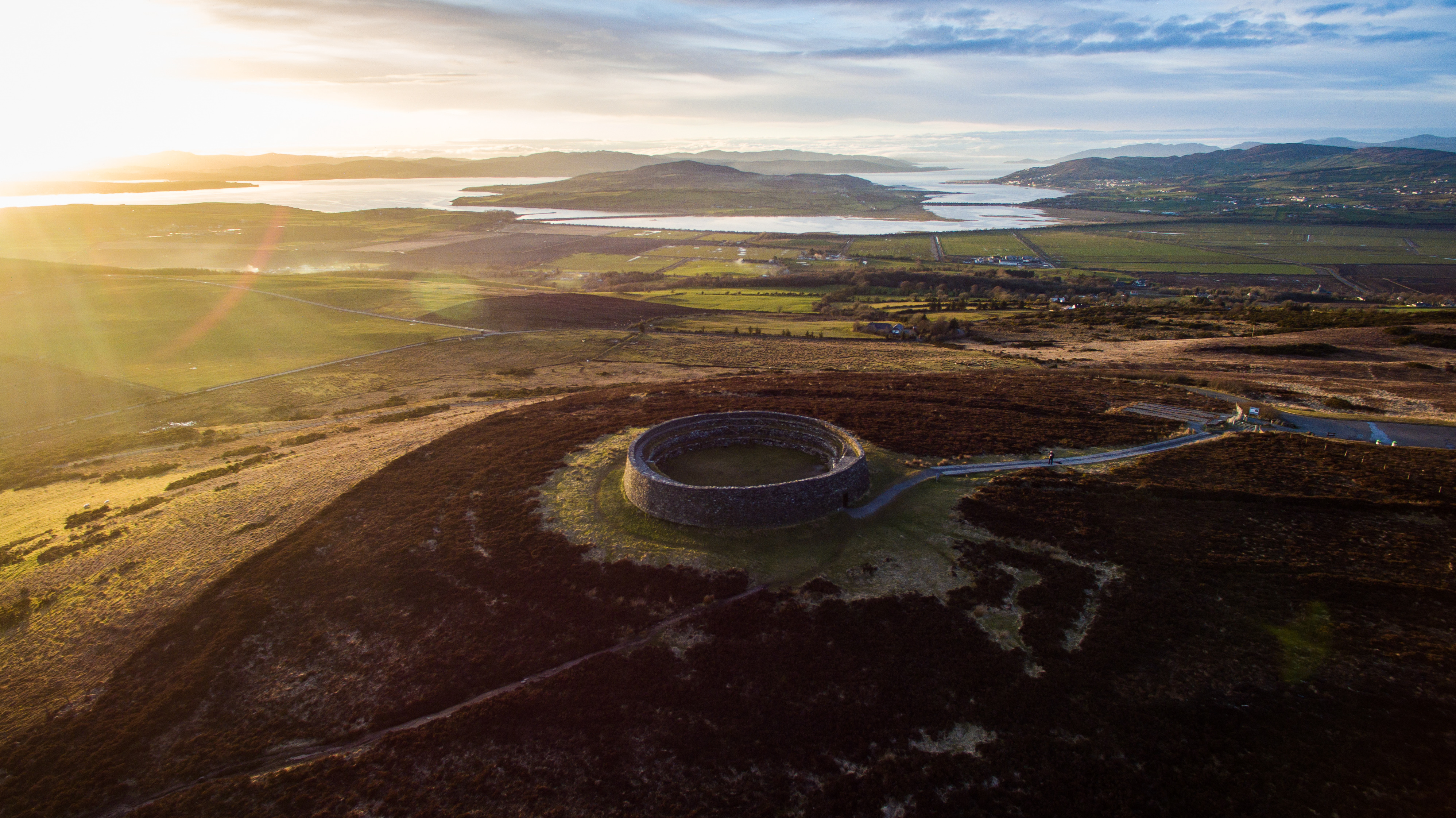 A stunning sunset over the fort